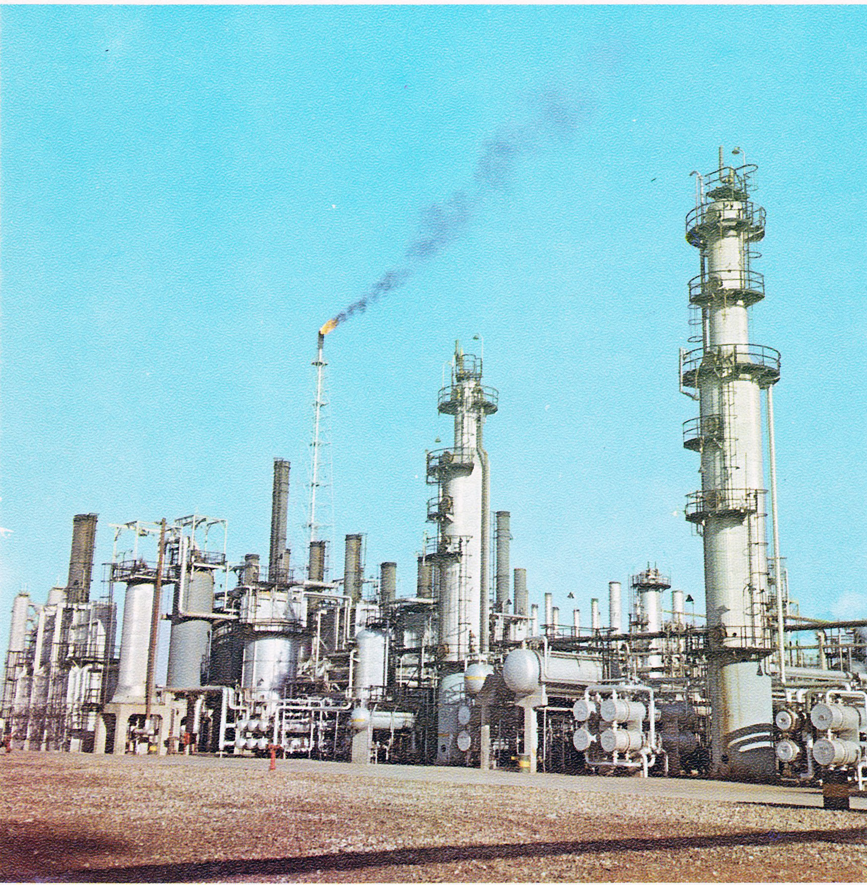 Abadan Oil Refinery, Catalytic Facilities